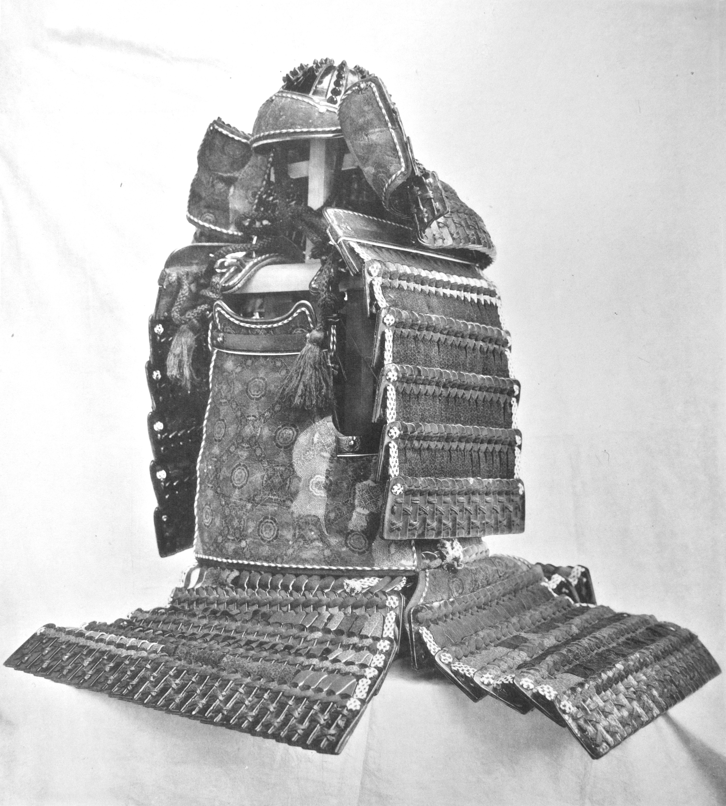 Armour with cherry-patterned yellow leather lacing (小桜韋黄返威鎧 kozakura kawa kigaeshi odoshi yoroi); formerly belonged to Minamoto no Tametomo. Itsukushima Shrine, Hiroshima, Japan